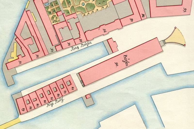 The Børsgraven dock and the street Bag Børsen where Slotsholmsgade runs today on Slotsholmen in Copenhagen, Denmark